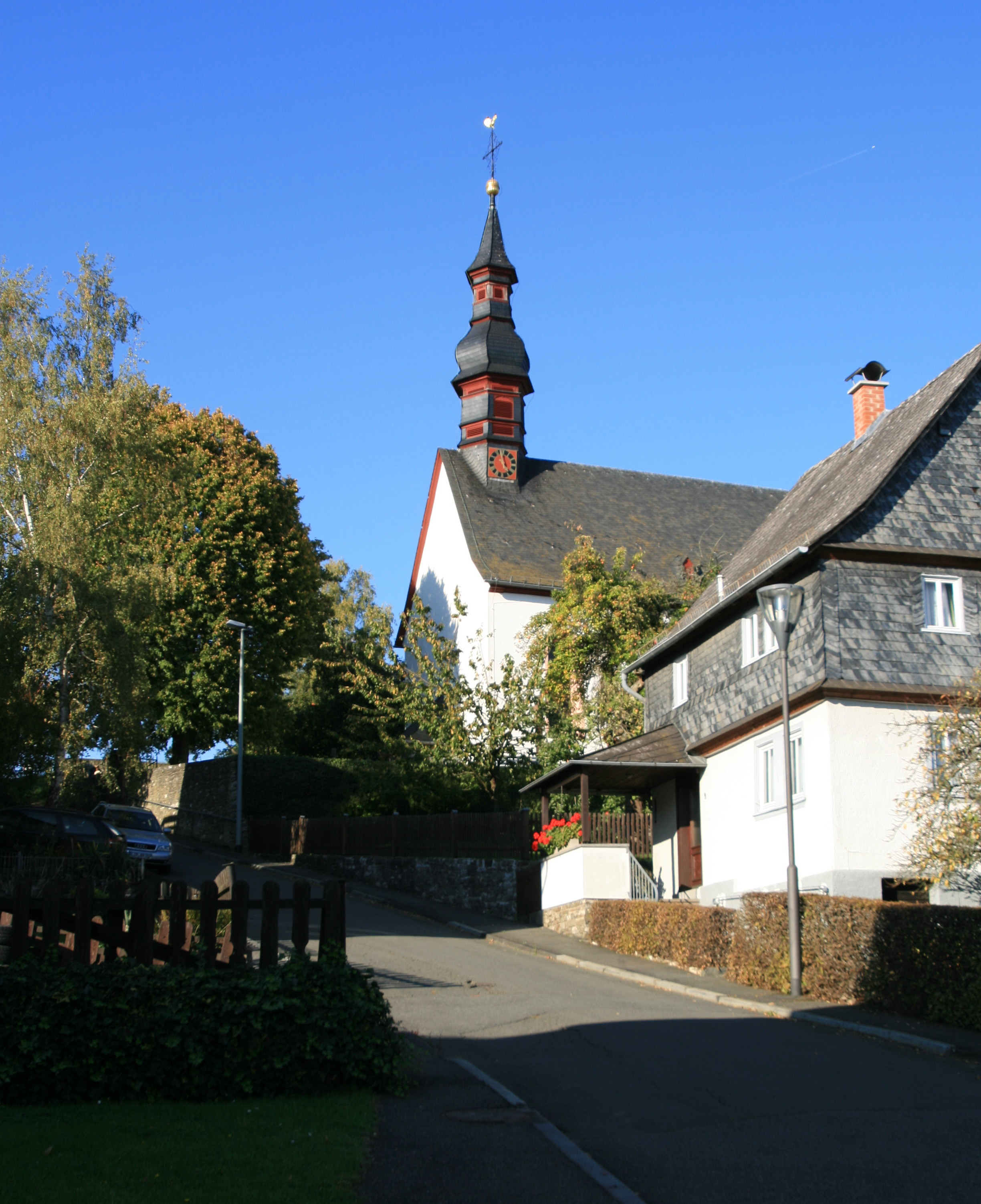 Church St. Nikolaus at Espenschied, Lorch, Germany